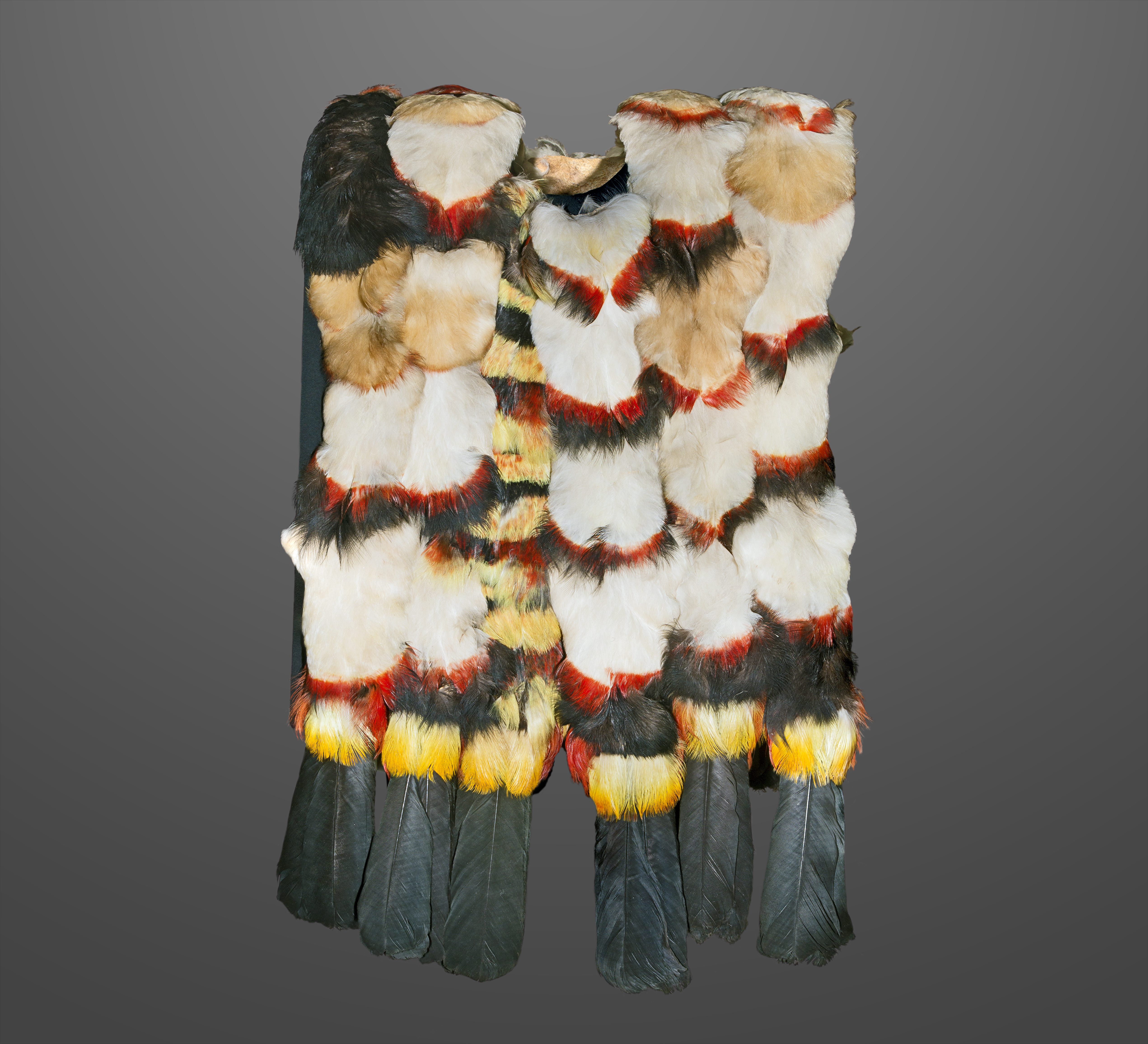 Tunic in toucan feather. The movement of people and objects has led to meetings and to the emergence of new forms. This prestigious clothing and high ranking reflects the cultural exchange links that have taken place between the populations of the Amazon and the Andes. The shape of this tunic is from the Andean cultures, while the materials are typically Amazonian. Population : Shuar People - Ecuador and Peru. Materials: Vegetable fibers, skin and toucan feathers. Size : 66.5 x 40 cm